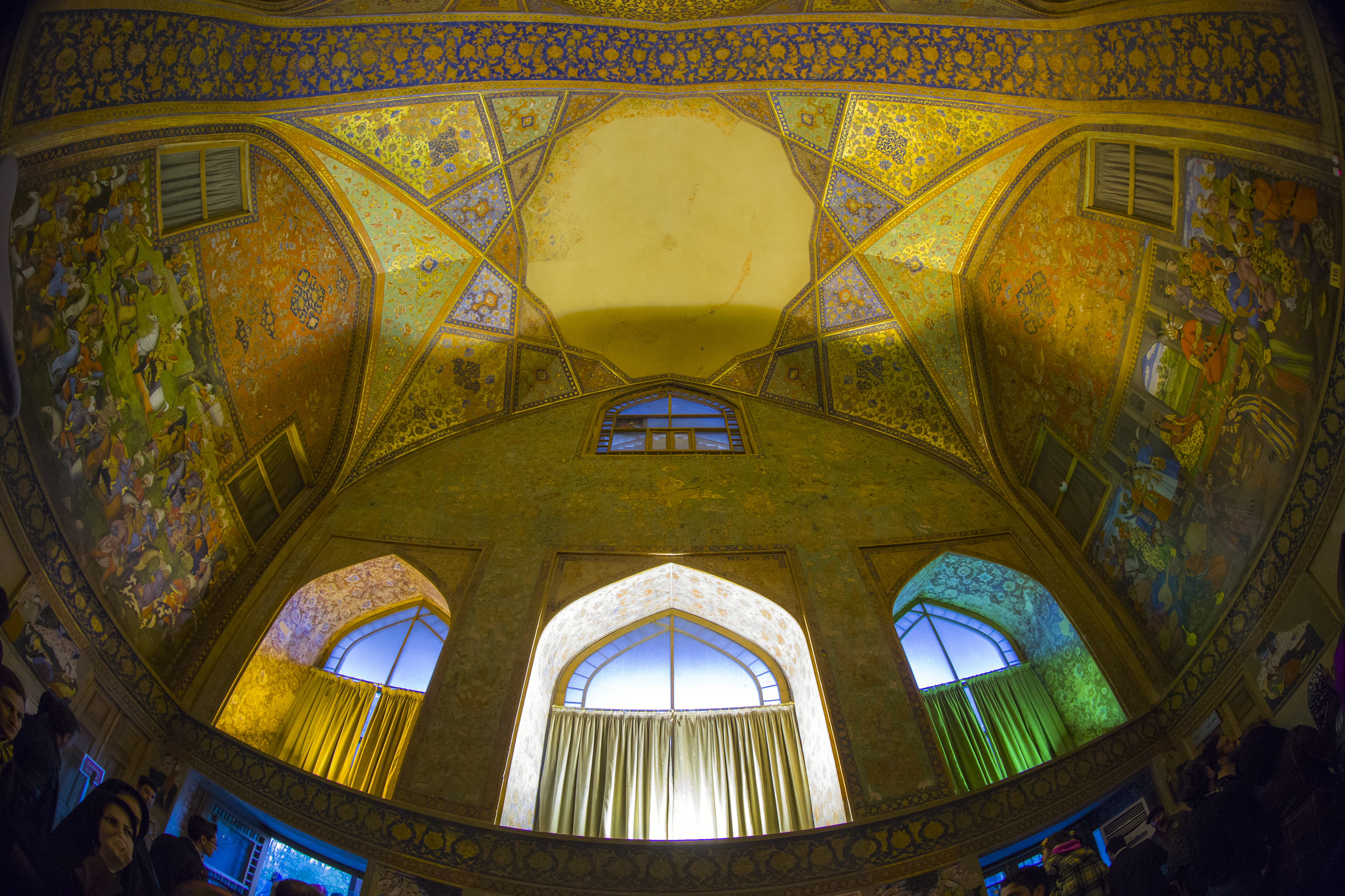 Chehel Sotoun (also Chihil Sutun or Chehel Sotoon; Persian: چهل ستون, literally: “Forty Columns”) is a pavilion in the middle of a park at the far end of a long pool, in Isfahan, Iran, built by Shah Abbas II to be used for his entertainment and receptions. In this palace, Shah Abbas II and his successors would receive dignitaries and ambassadors, either on the terrace or in one of the stately reception halls.